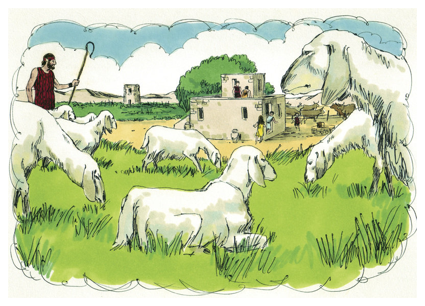 Biblical illustration of Book of Deuteronomy Chapter 1